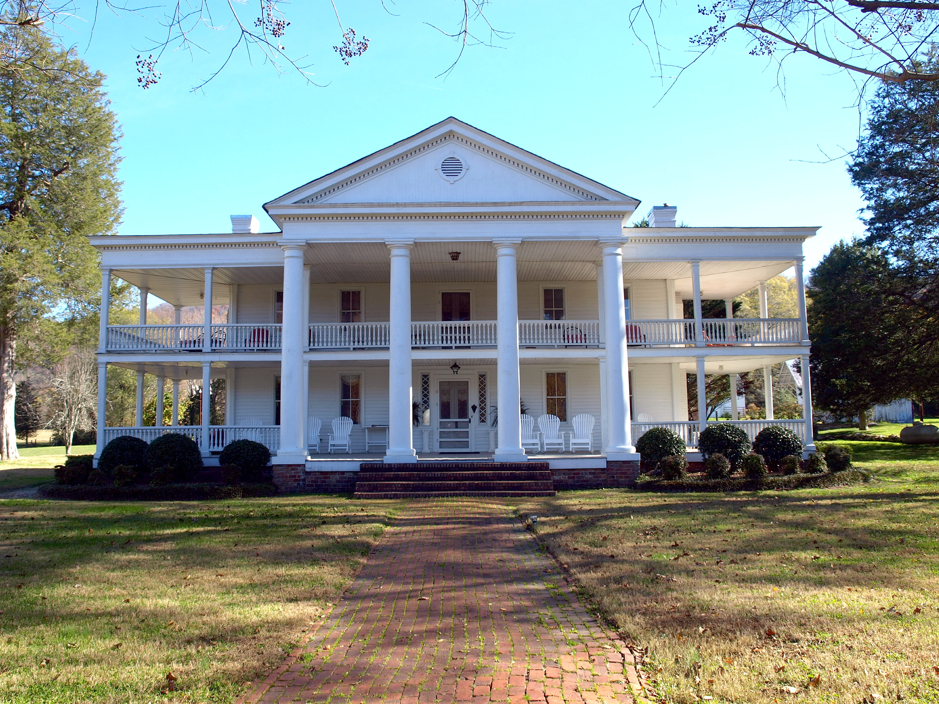 Winston Place in Valley Head, Alabama, listed on the National Register of Historic Places